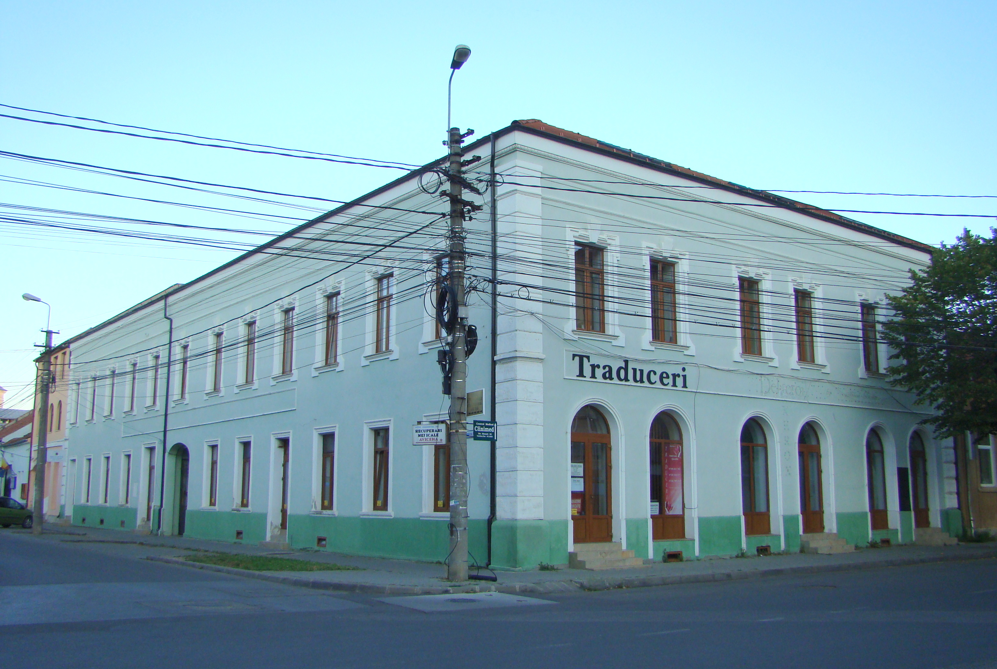 House, historic monument, Regina Maria street nr.2, Alba Iulia, Alba county, Romania